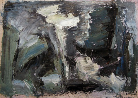 Photograph taken by Misterlobat of work by Rita Letendre to show an example of her very early gestural work.